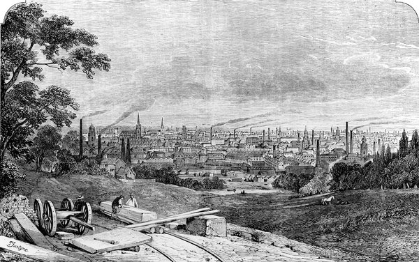 Engraving by Percy William Justyne